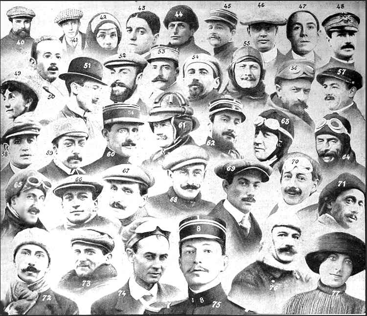 Aviator deaths in Je Sais Tout on 15 August 1912, image 2